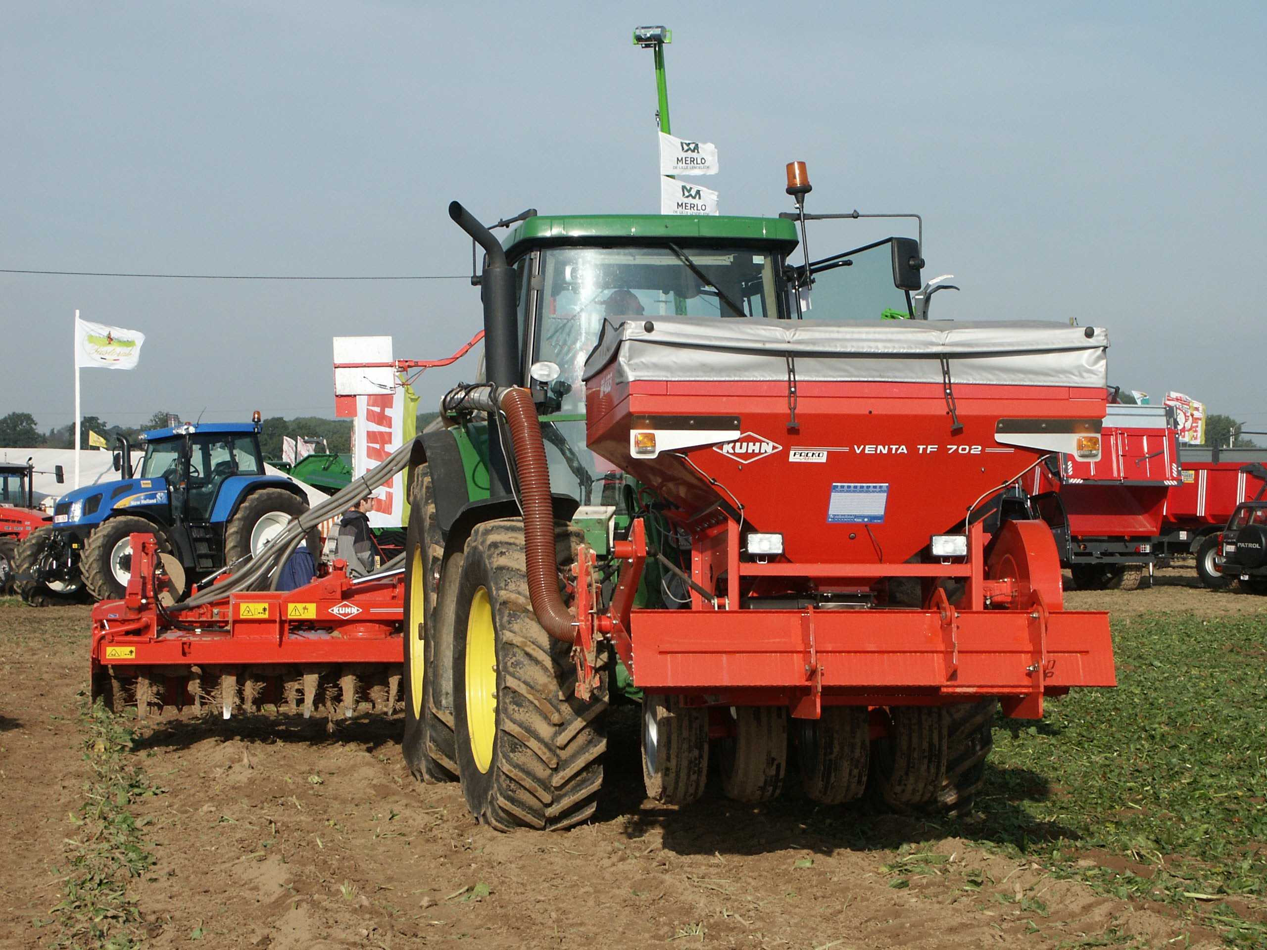 John Deere tractor with Kuhn seed drill combination at Werktuigendagen 2005, Belgium